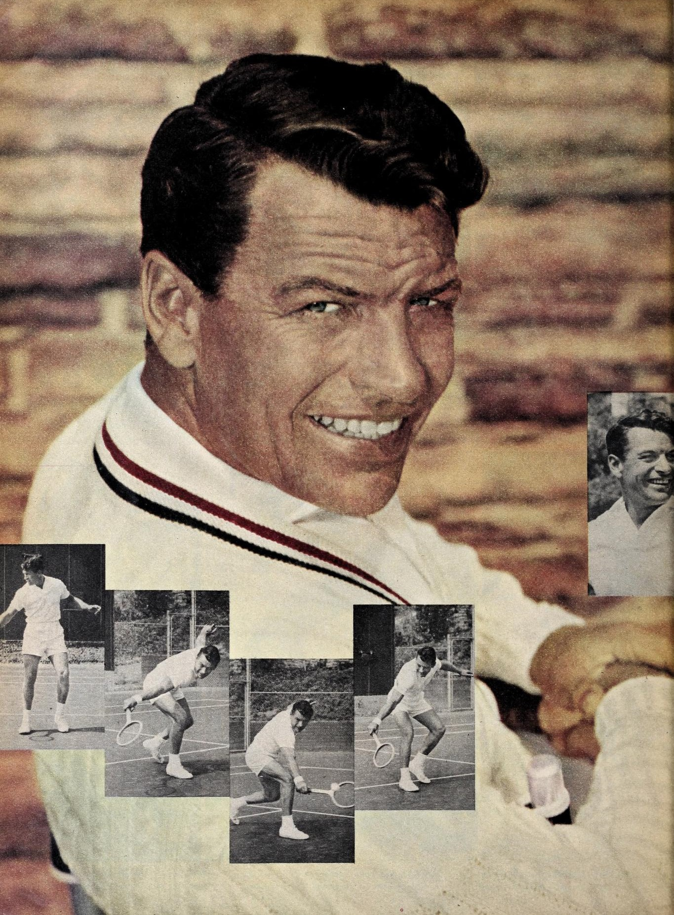 Richard Egan, photographed by Sid Avery, Photoplay January 1956